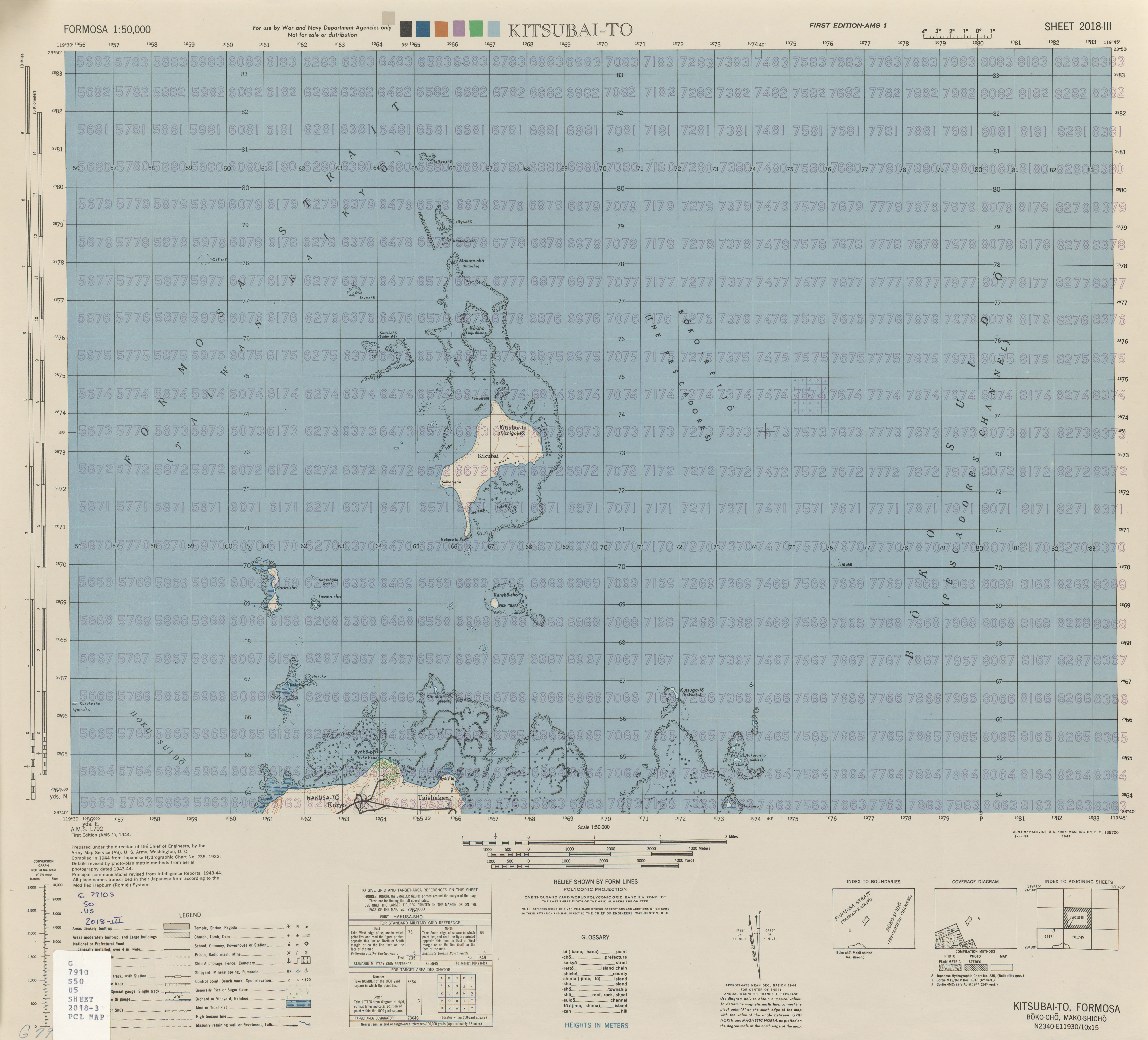 Map from Series L792